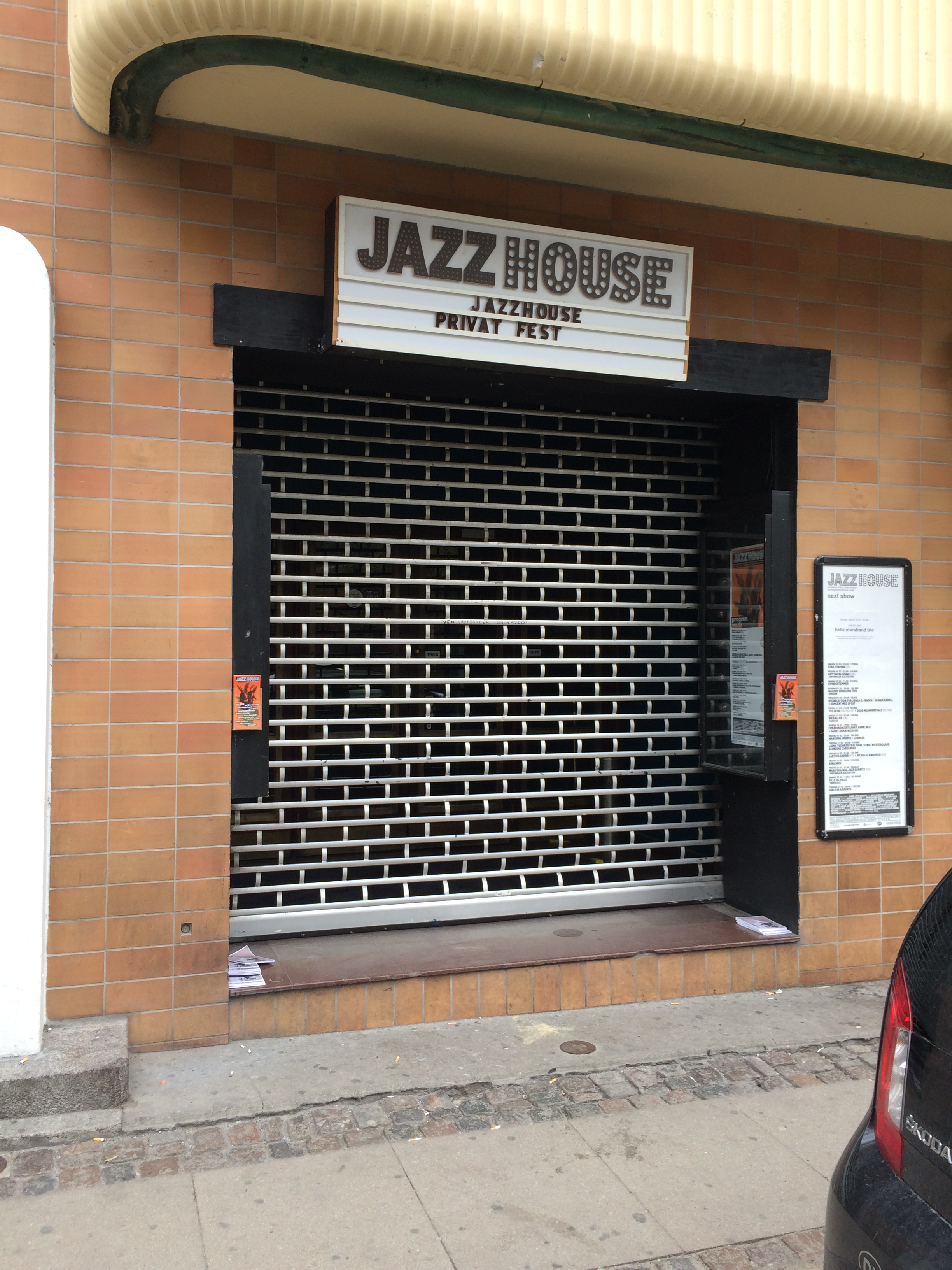 Jazzhouse Copenhagen, Main Entrance in 2016